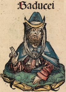 This is a part of a scan of an historical document: Title: Schedelsche Weltchronik or Nuremberg Chronicle